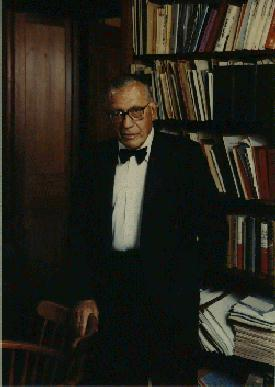 John Thomas Dunlop Upload Source - U.S. Department of Labor Biography evrik (John Thomas Dunlop)